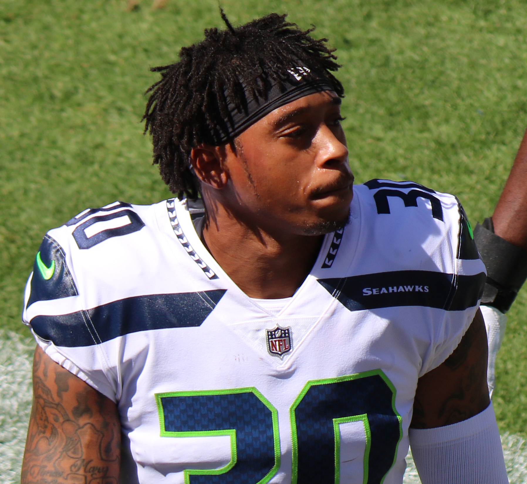 Bradley McDougald, a National Football League player.